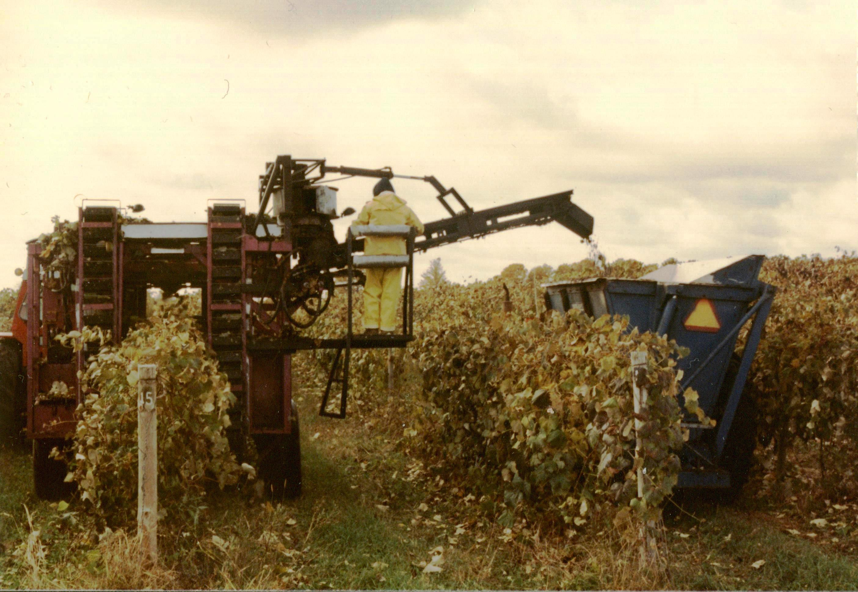 Grape harvesting, southwest Michigan. Rear view, showing bin collecting the grapes.